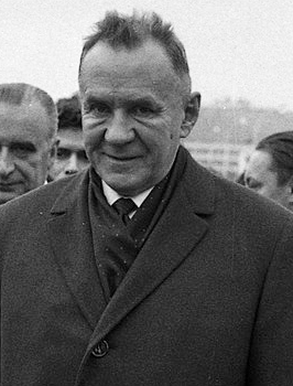 Photograph of Soviet Premier, Alexei Kosygin, visiting Toulouse cropped and reuploaded by Emiya1980. Shadows & brightness increased and sharpness decreased using Photo Editor at